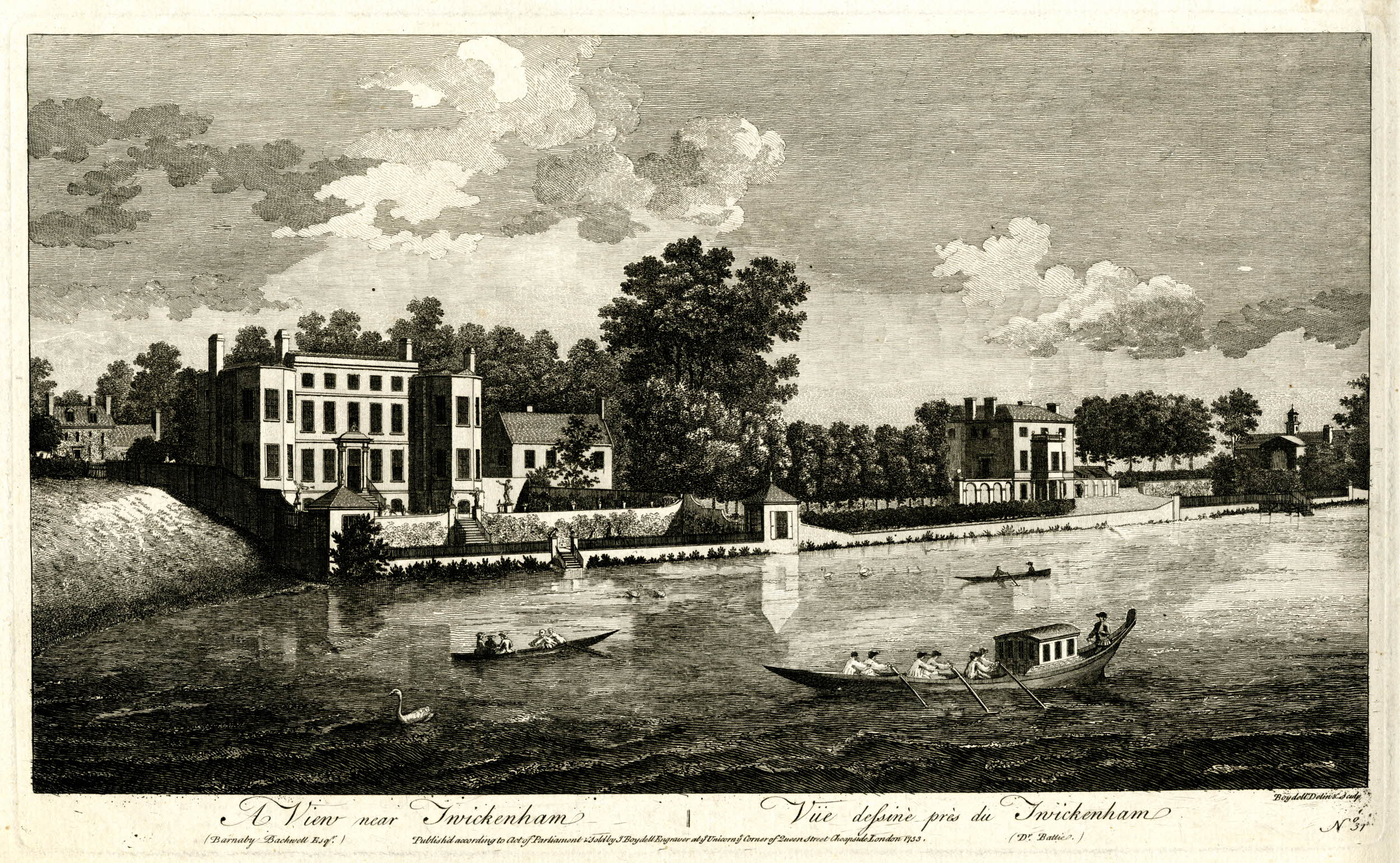 Boydell Delin & Sculp. Publish'd according to Act of Parliament, & Sold by J. Boydell Engraver, at the Unicorn the Corner of Queen Street Cheapside London 1753. Engraving, paper watermarked with very large margins. Plate 249 x 412mm (9¾ x 16¼"). View of Twickenham from the Thames. Two large houses on the bank, one belonging to Barnaby Backwell and another belonging to Dr Battie further along (as indicated in key below). Three boats on the water. From "A Collection of One Hundred Views In England and Wales". John Boydell's 'Collection of Views' was made after he turned from engraver to print publisher in 1767. The first collection was issued in 1770, and included some plates by printmakers other than himself. Adams 47.31; Gascoigne & Ditchburn 196.